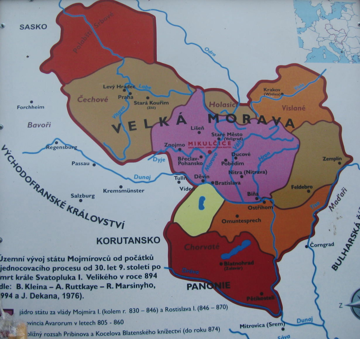 Mikulčice. Map of Greater Moravian Empire